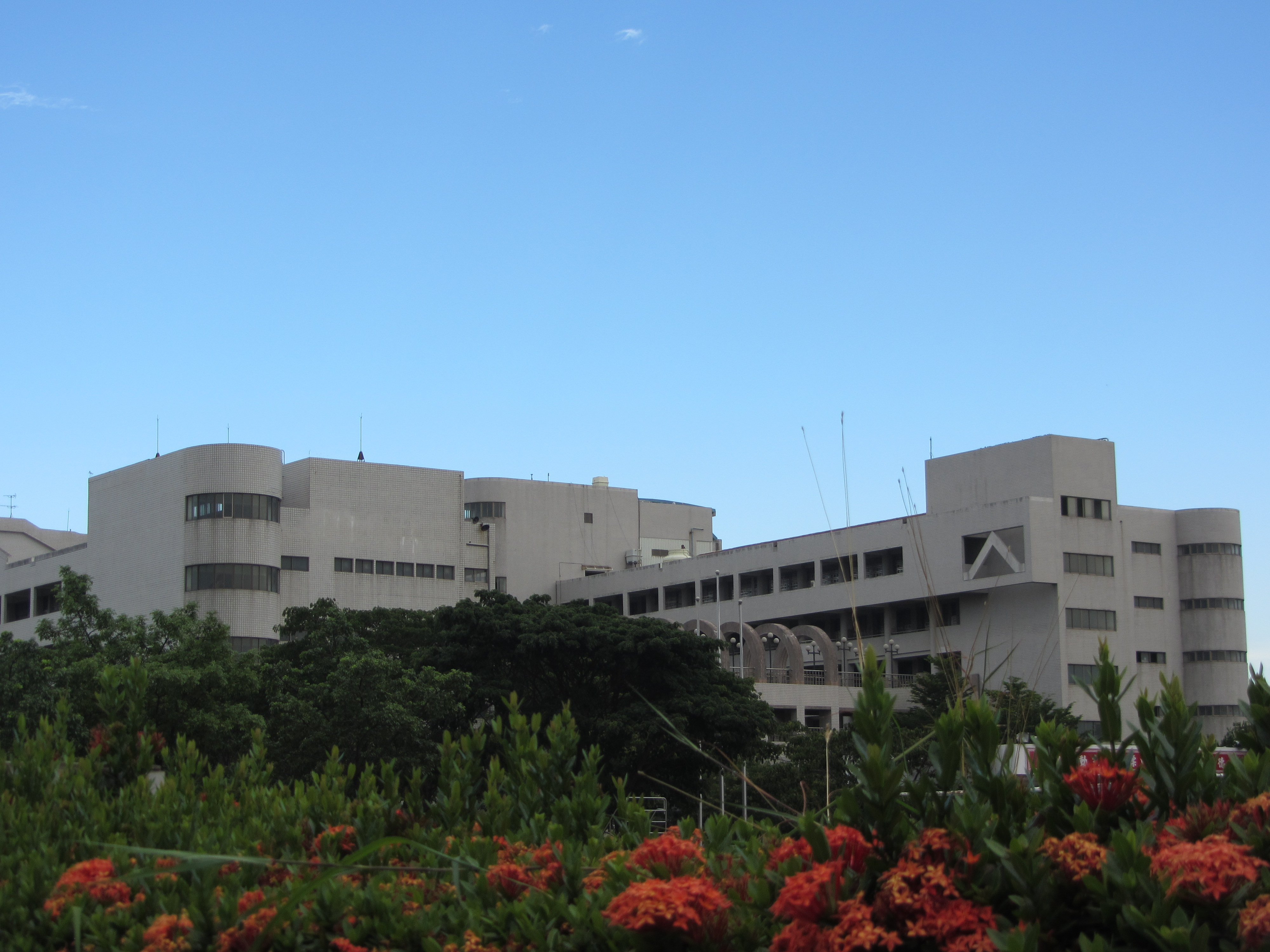 Kaohsiung Municipal Siaogang Senior High School